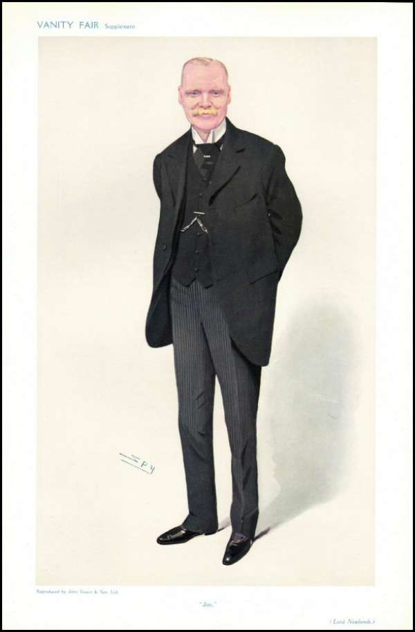 Caricature of Lord Newlands. Caption read "Jim".